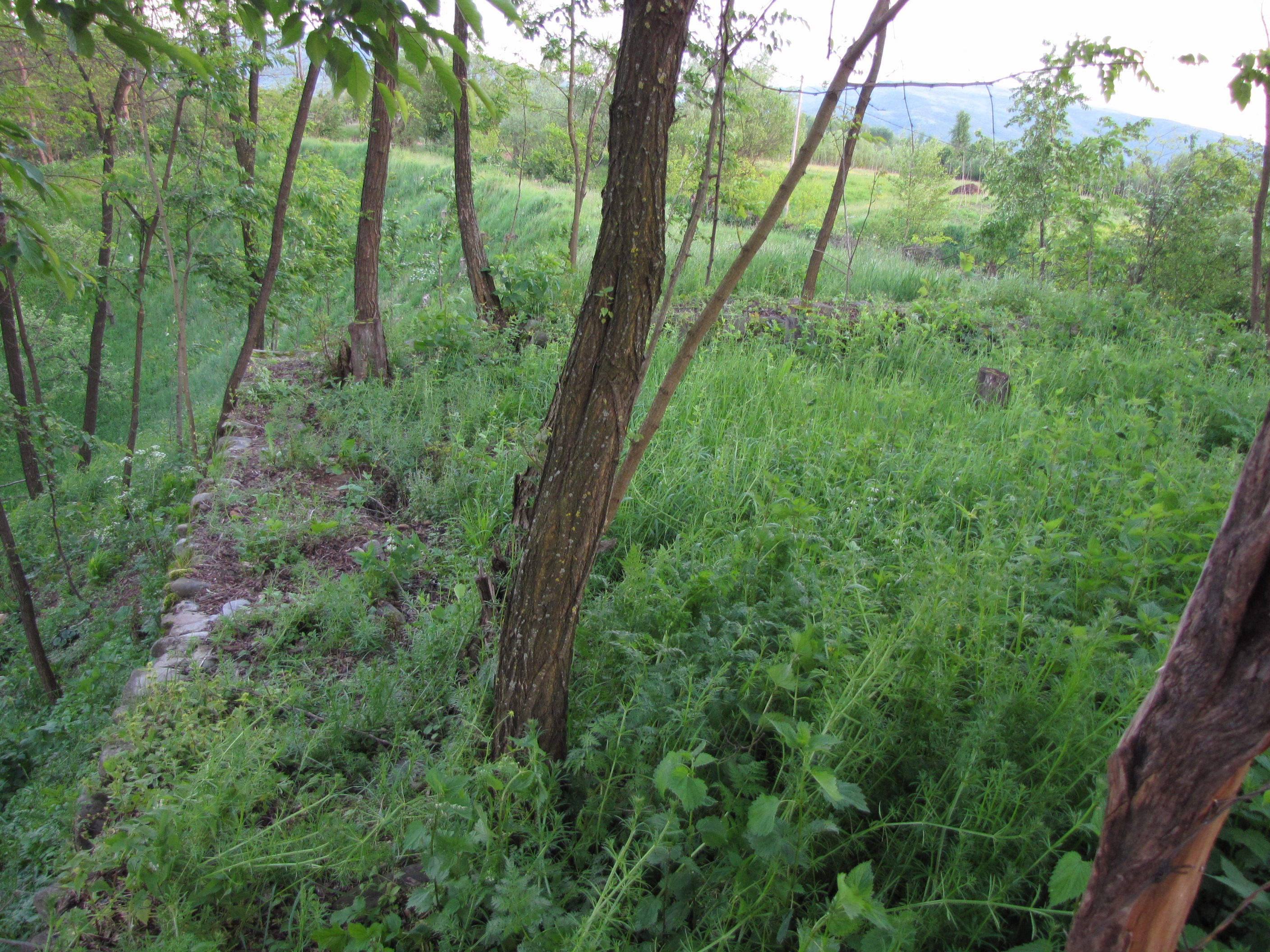 The ruins od the small citadel al Bogdan Vodă